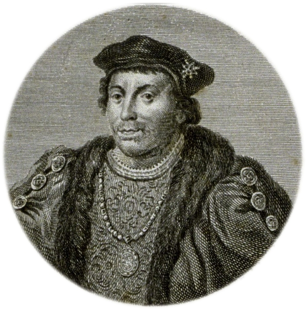 18th century image of Henry Stafford, 2nd Duke of Buckingham